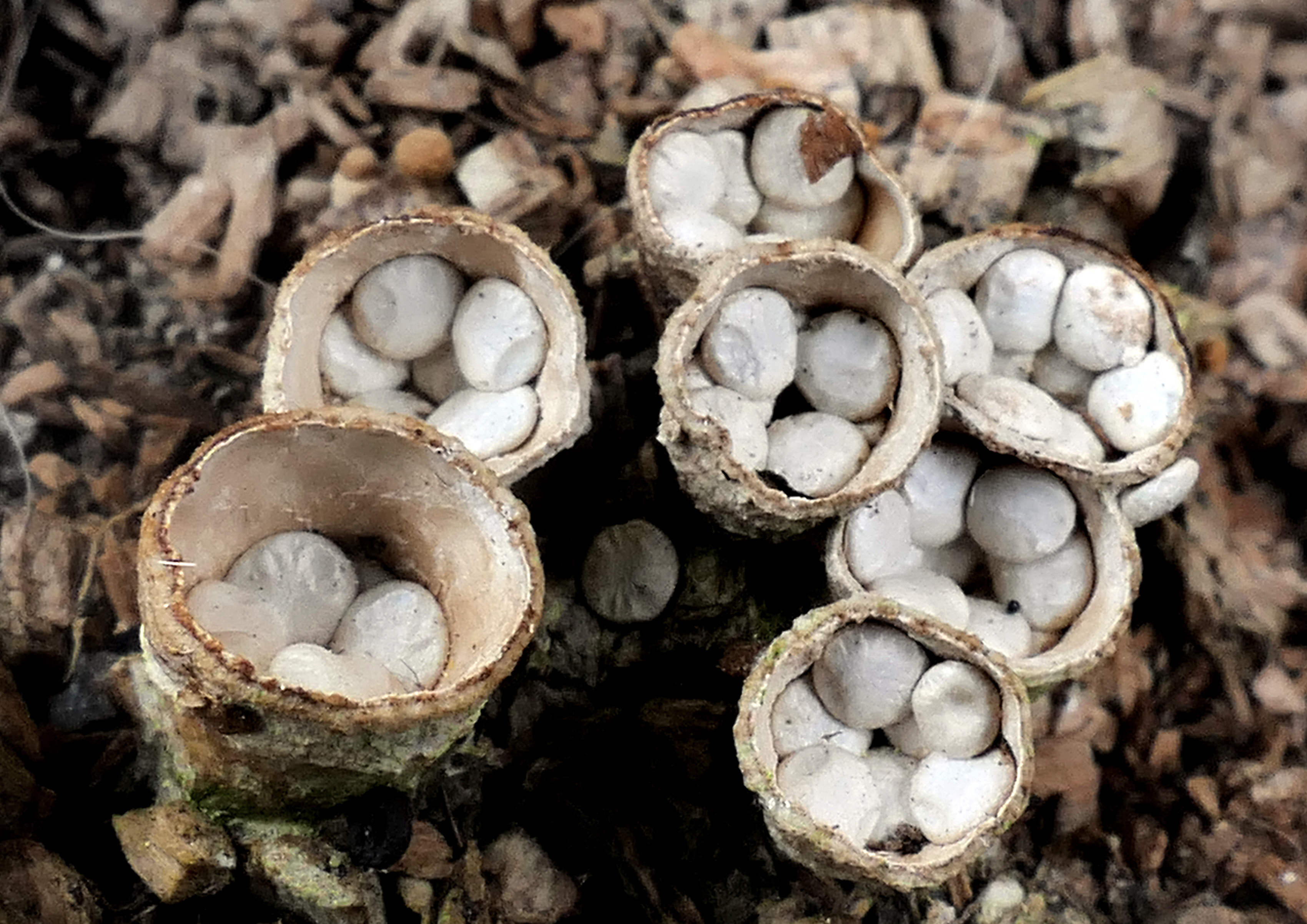 Bird's nest fungi are a small group of saprophytic fungi that have a unique way of reproducing. As their common name suggests they look like small bird's nests complete with eggs. In fact, the nest is a splash cup which is light to dark brown or white on the outside and white, grey or brown on the inside, this depending on species. With smooth flaring sides between 4 to 10 mm in diameter and 6 to 20 mm in height, again depending on species Immature Bird Nest have a cap over the top of the splash cup to protect the eggs, which brakes away at maturity.